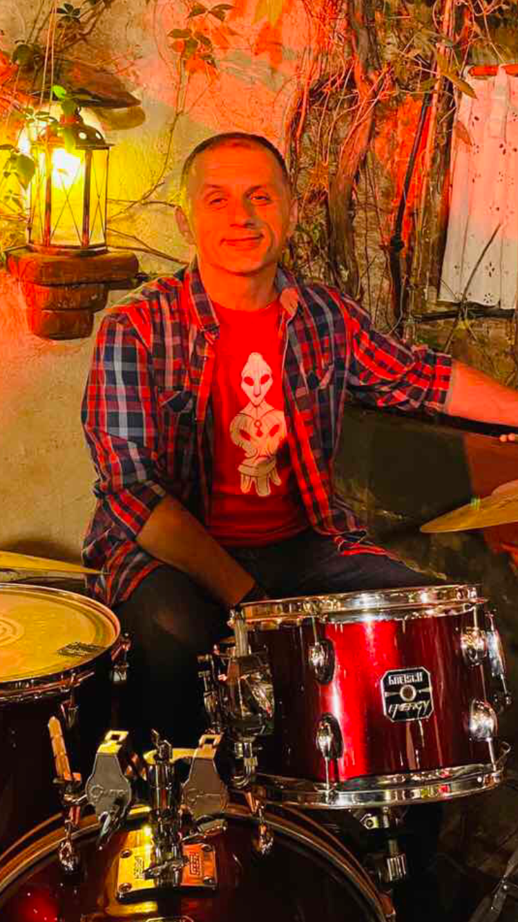 Valon Grashtica drummer